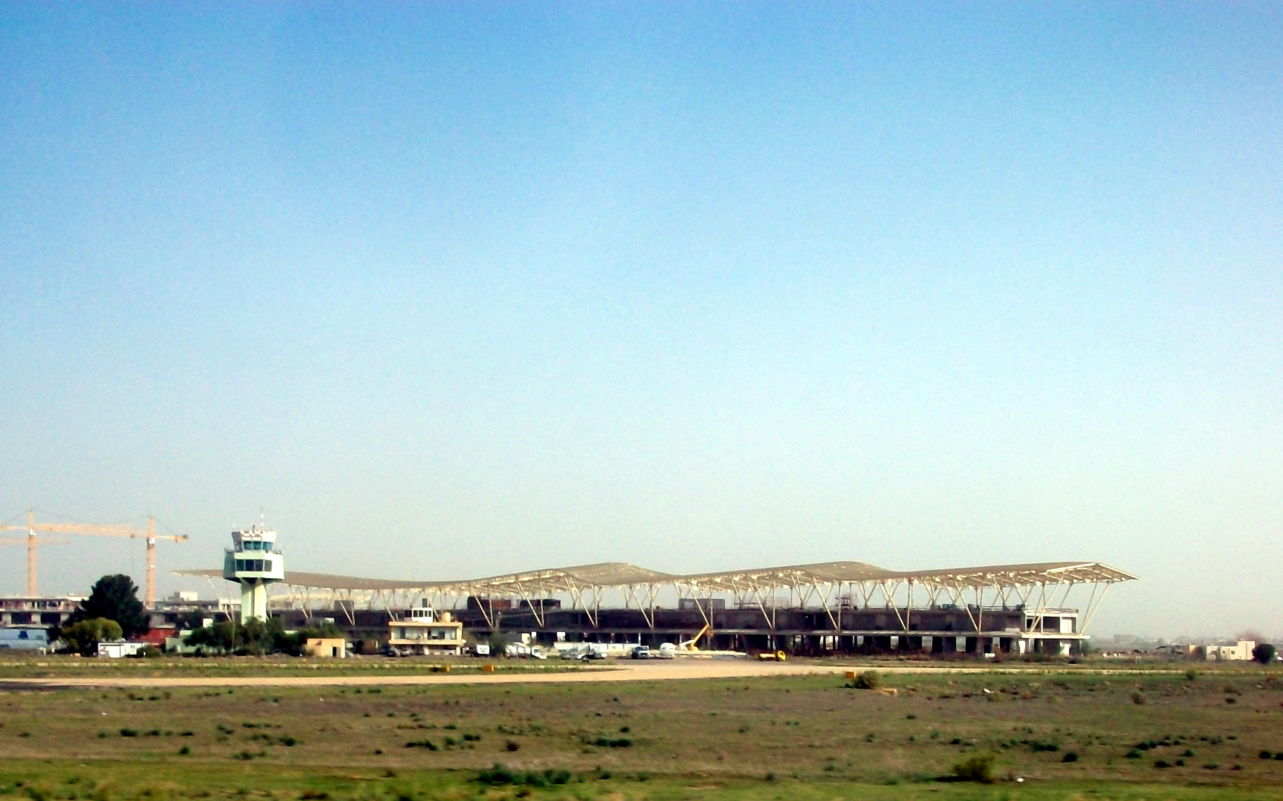 Progress on the construction of the first of two new terminals at Tripoli International Airport in Libya as of March 2013. Construction has stopped as of the Libyan revolution in February 2011.